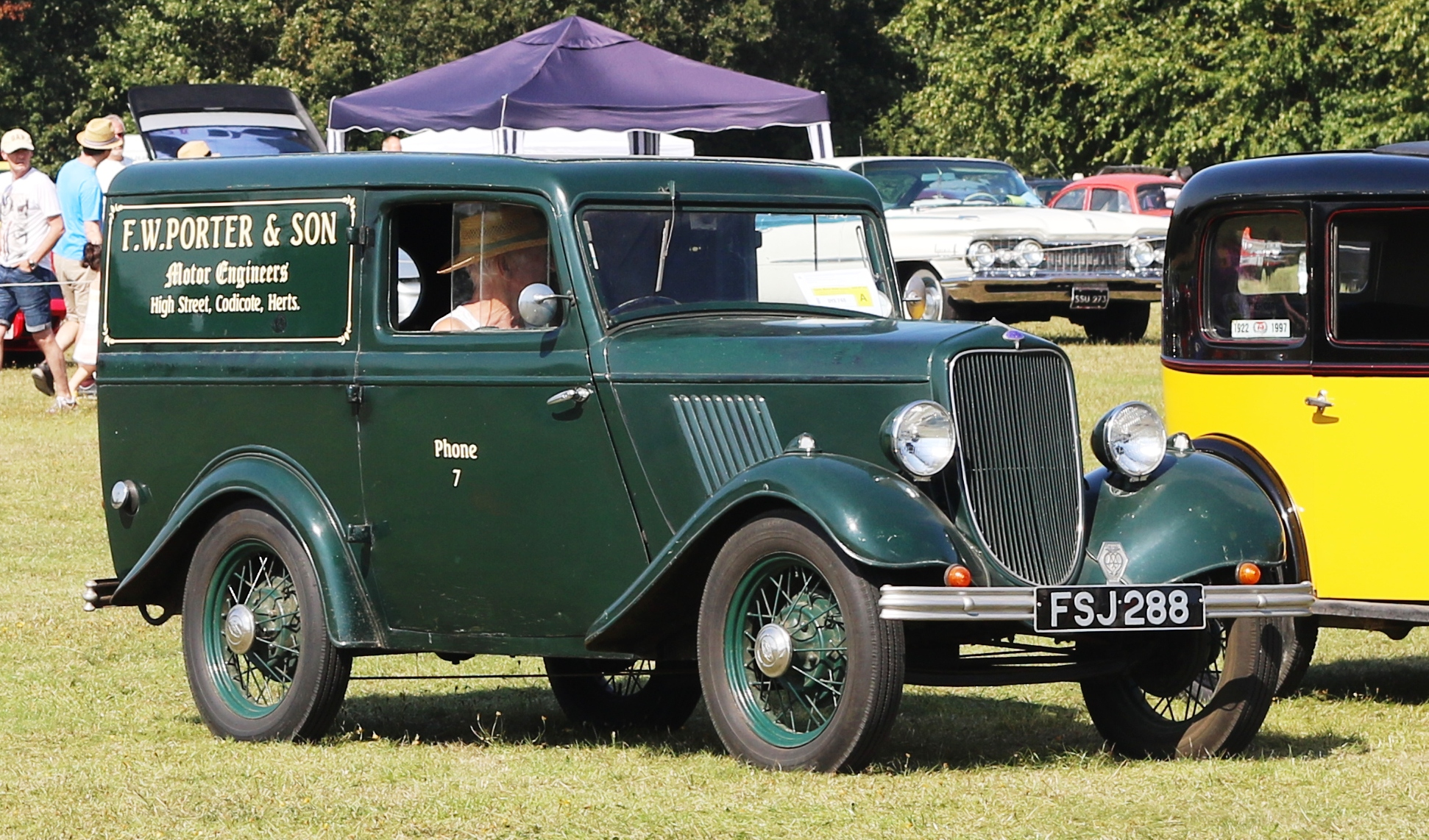 Ford van declared manufactured 1933 first registered UK January 1998 997cc